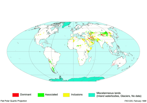 destribution of Solonchak